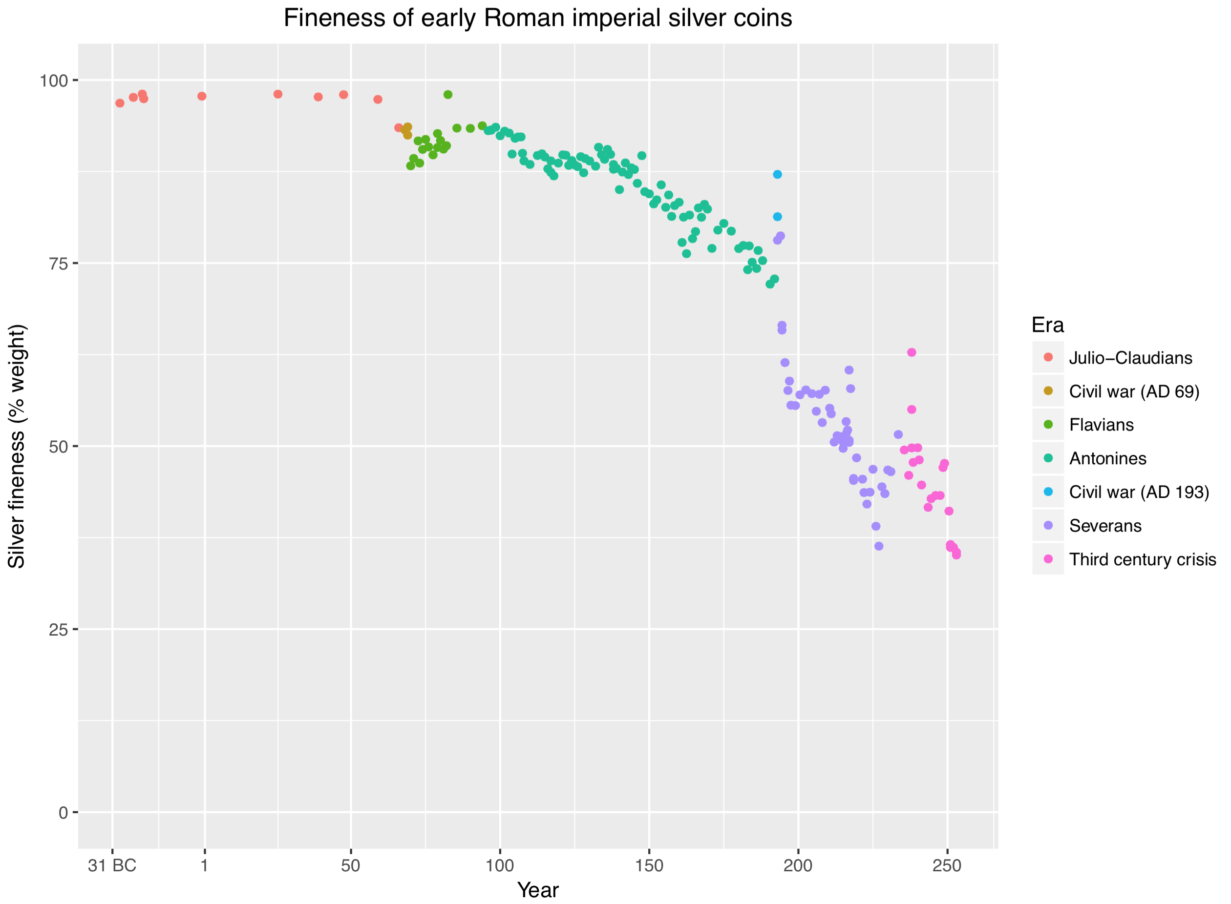 Data from Walker, D.R. (1976-78), The Metrology of the Roman Silver Coinage. Parts I to III. Before the civil war of 69, the exact time of a coin's manufacture within a reign is usually unknown. During and after the civil war of 69, most coins can be identified to the year or two. These are the data for the denarius and the antoninianus, and hence exclude the quinarius and eastern provincial coinage (drachma, cistophorus, etc.). Note that according to Butcher and Ponting (2009, "The Silver Coinage of Roman Syria Under the Julio-Claudian Emperors"), Walker's data, which relied on scratching the surface of a coin (rather than completely crushing and destroying the coin), can overestimate the silver content. They argue that the surfaces of the coins that Walker had examined had likely been depleted of copper during manufacture, during the centuries of burial, and during cleaning after their discovery.